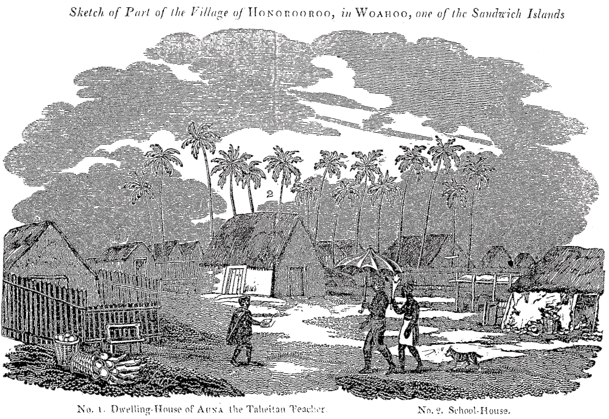 'Sketch of a Part of the Village of Honorooroo, in Woahoo, one of the Sandwich Island'. Image from the cover of Missionary Sketches no. 26, October 1824.